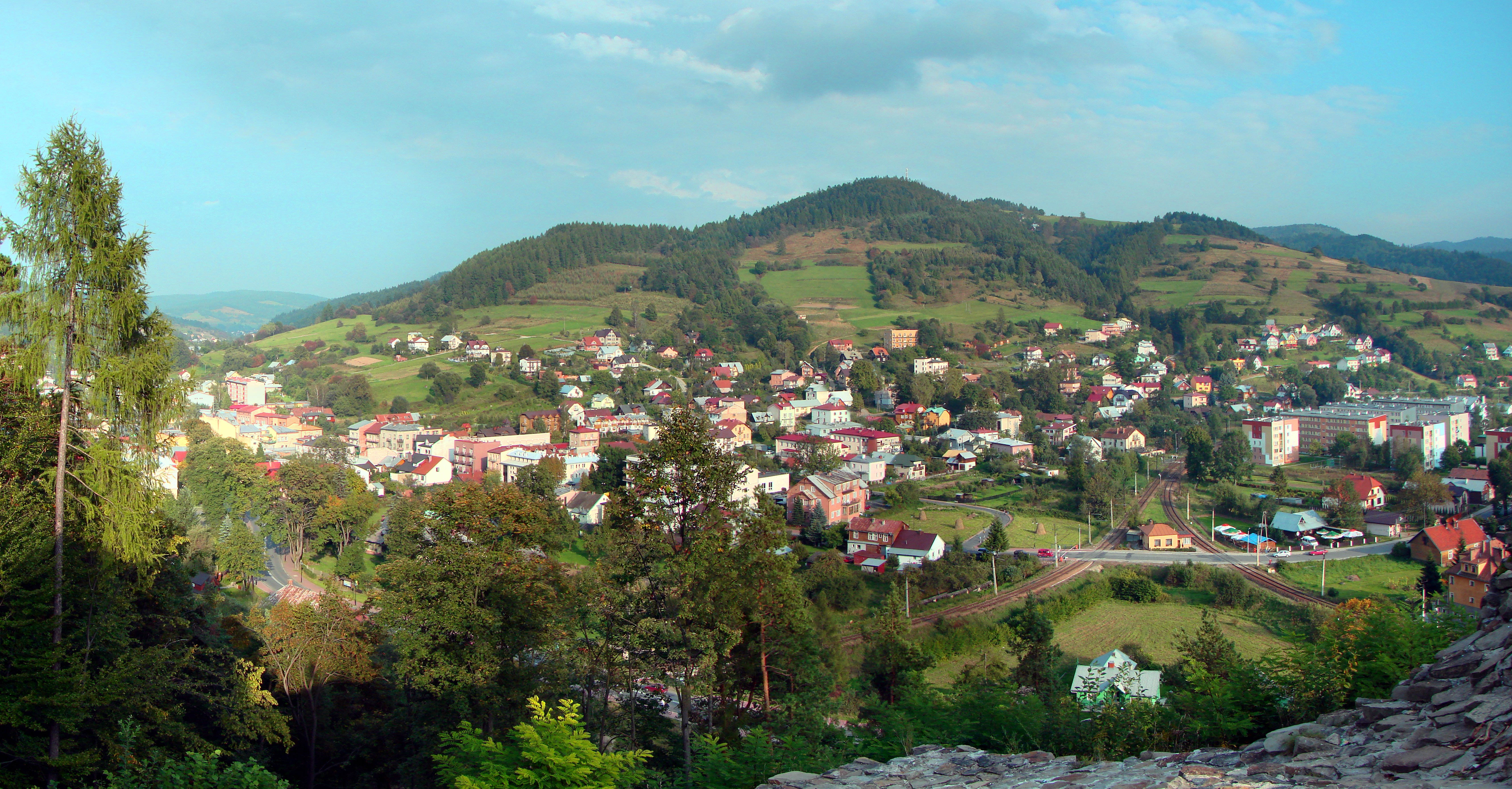 Panorama of Muszyna, Poland